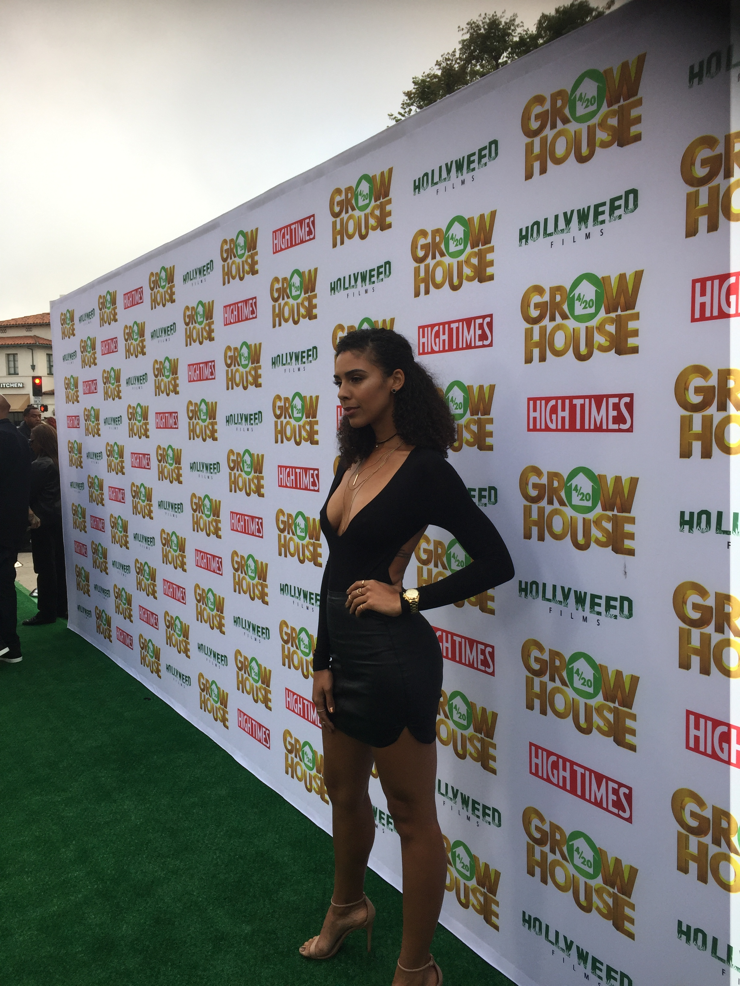 A pic I took at the premiere for Grow House last year